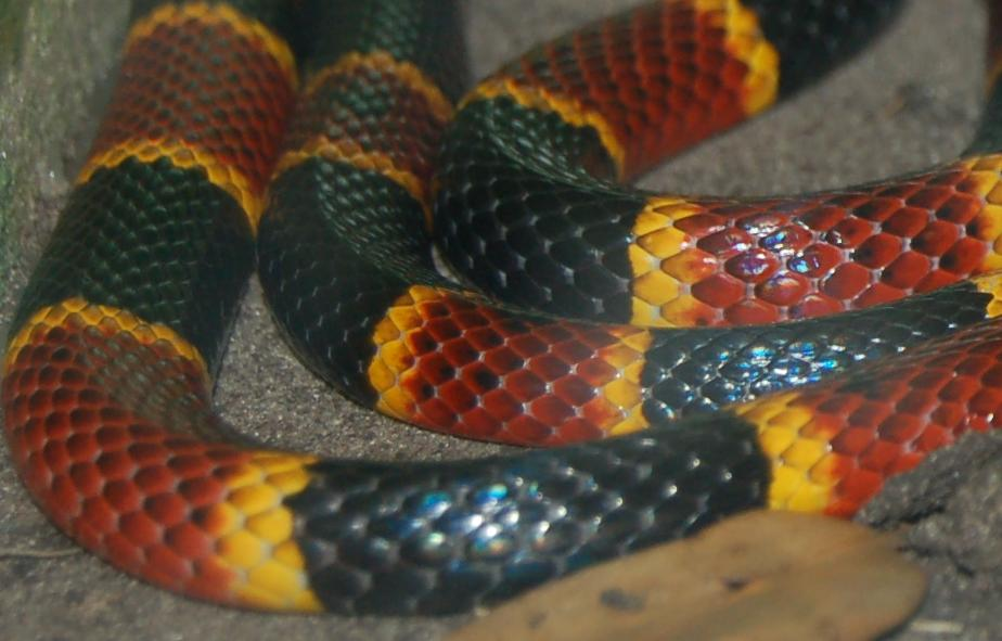 "killafellow" coral snake close-up